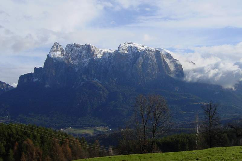 Schlern, one of the famos mountains of South Tyrol